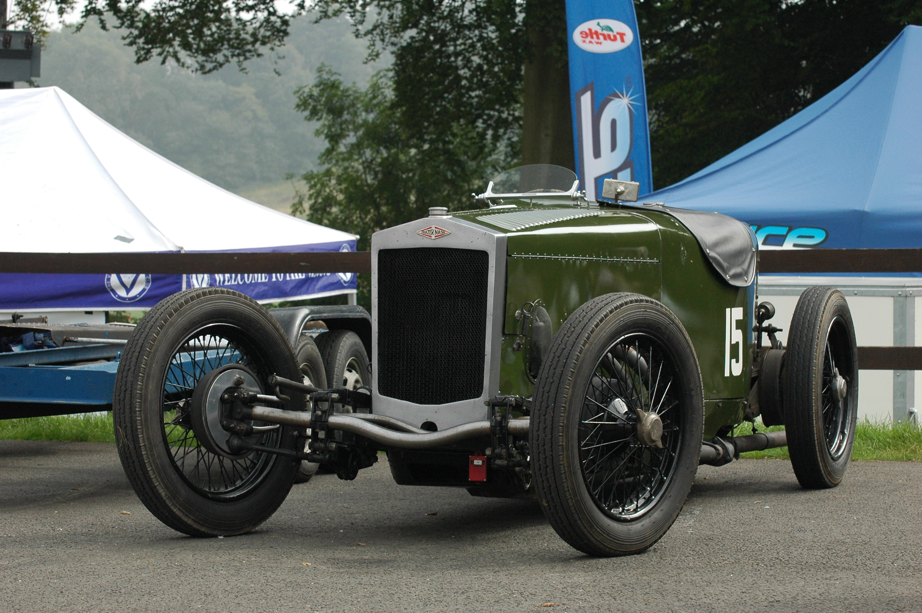 Frazer Nash Boulogne Vitesse Cadwell Park 2008